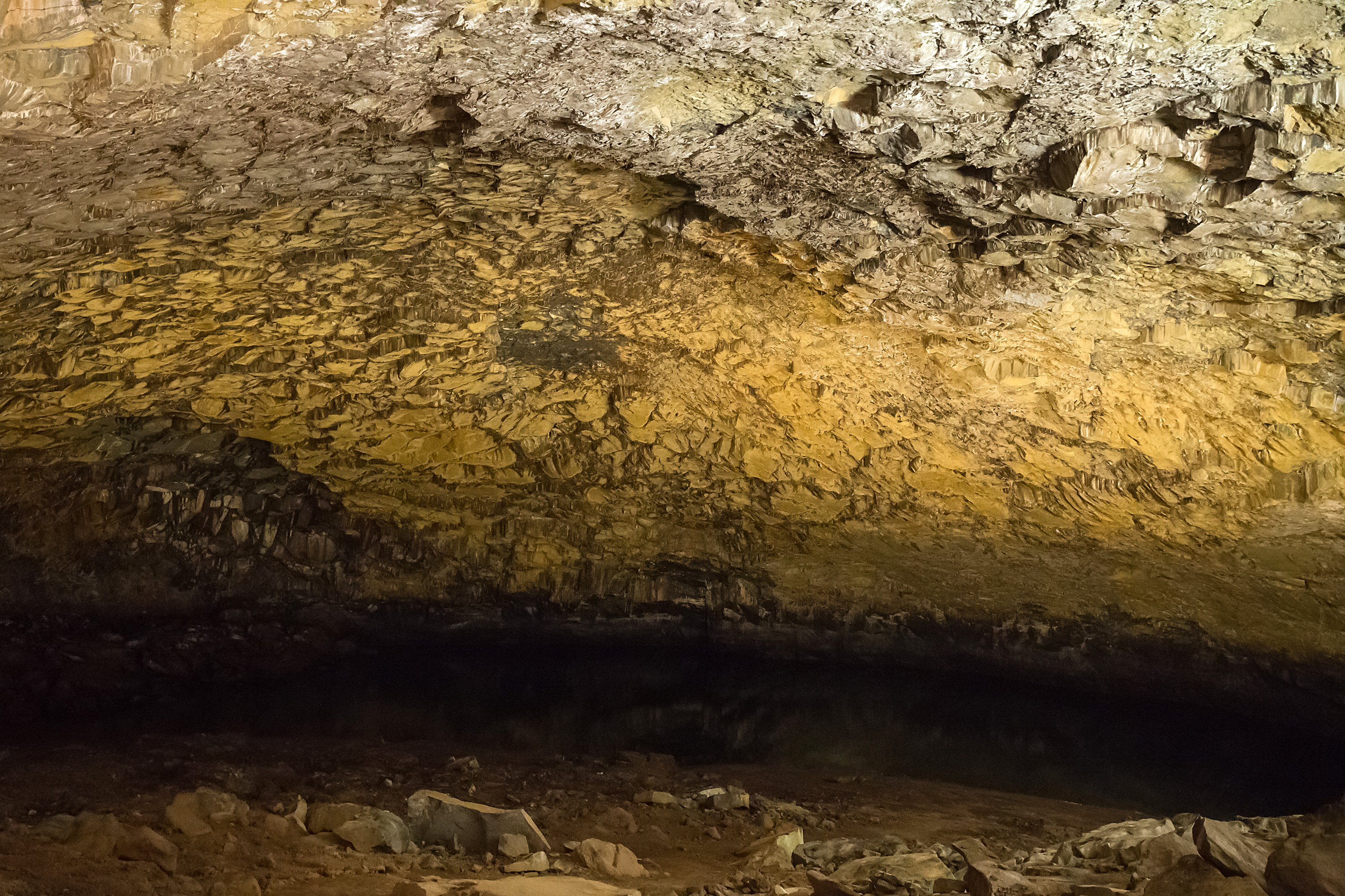 Furna do Enxofre, cave on Graciosa Island, Azores